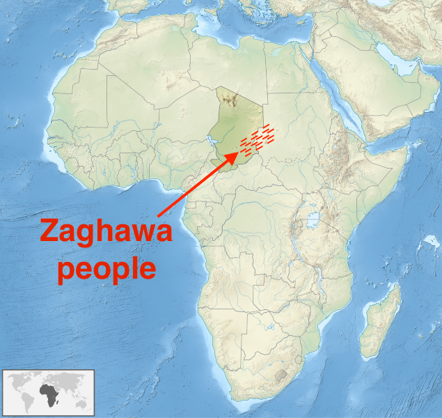 Approximate distribution of Zaghawa ethnic group in Chad and Sudan border area. They live with other ethnic groups in this region. This is a derivative work on the wikimedia file: File:Chad in Africa (relief).svg